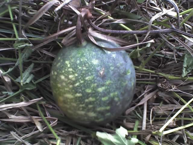 Lagenaria sphaerica — Wild Melon, fruit.